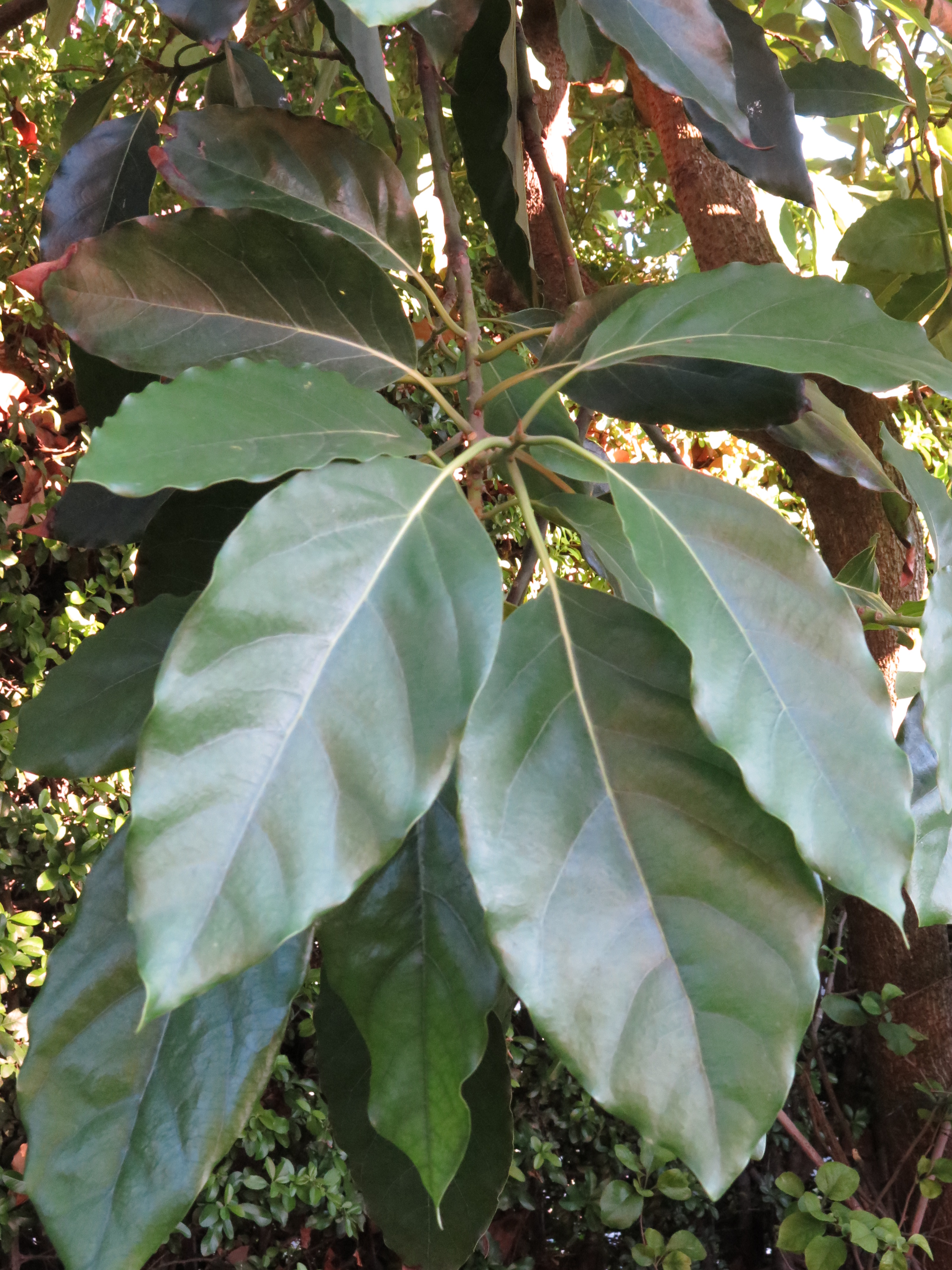 The leaf of Persea americana.